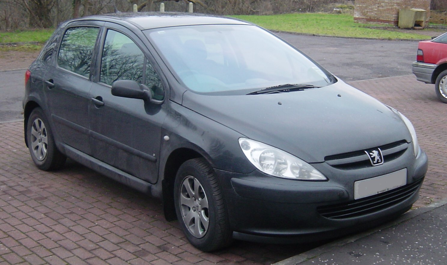 created by Mazurka